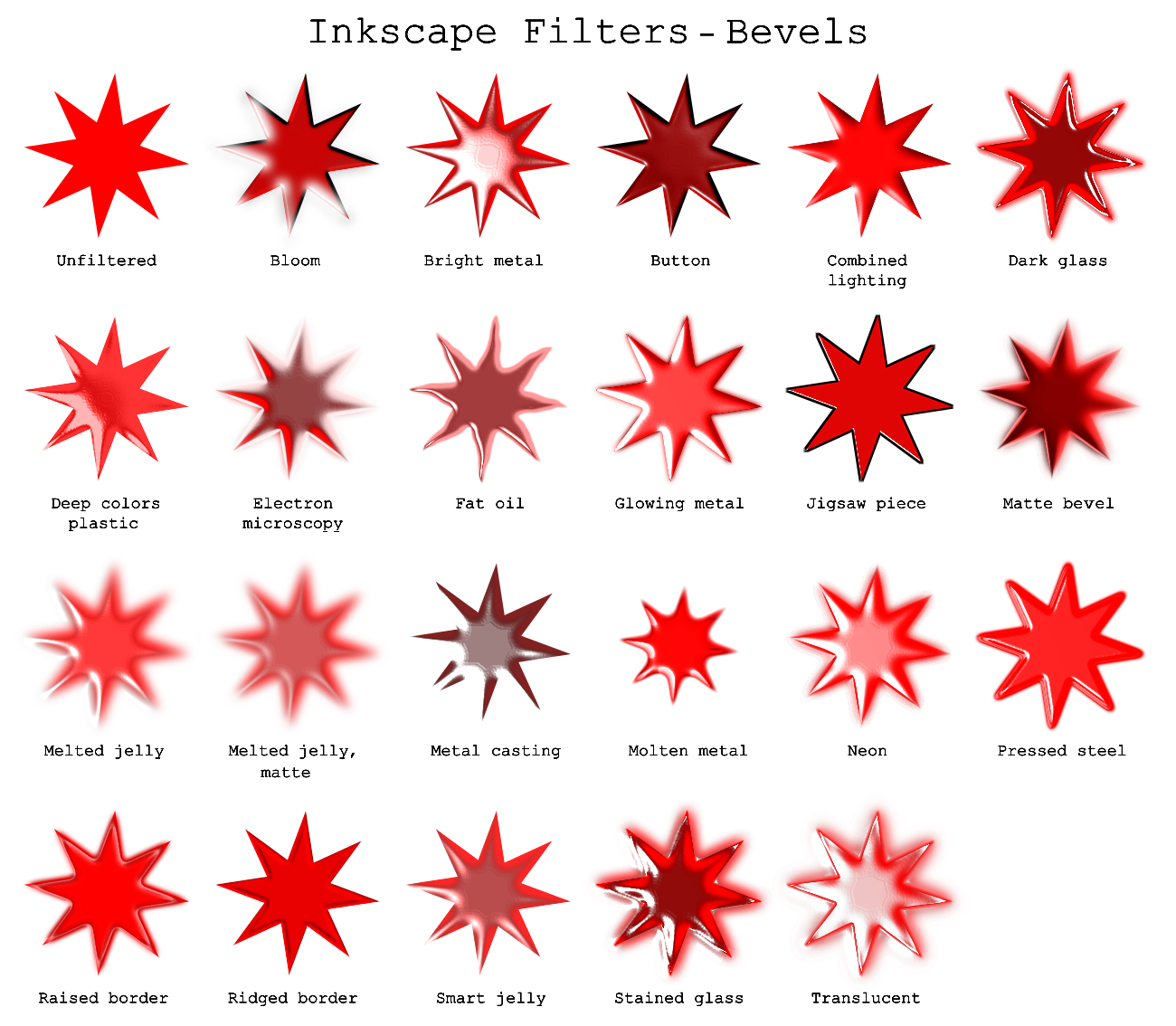 Inkscape filters in Bevels group This vector image was created with Inkscape